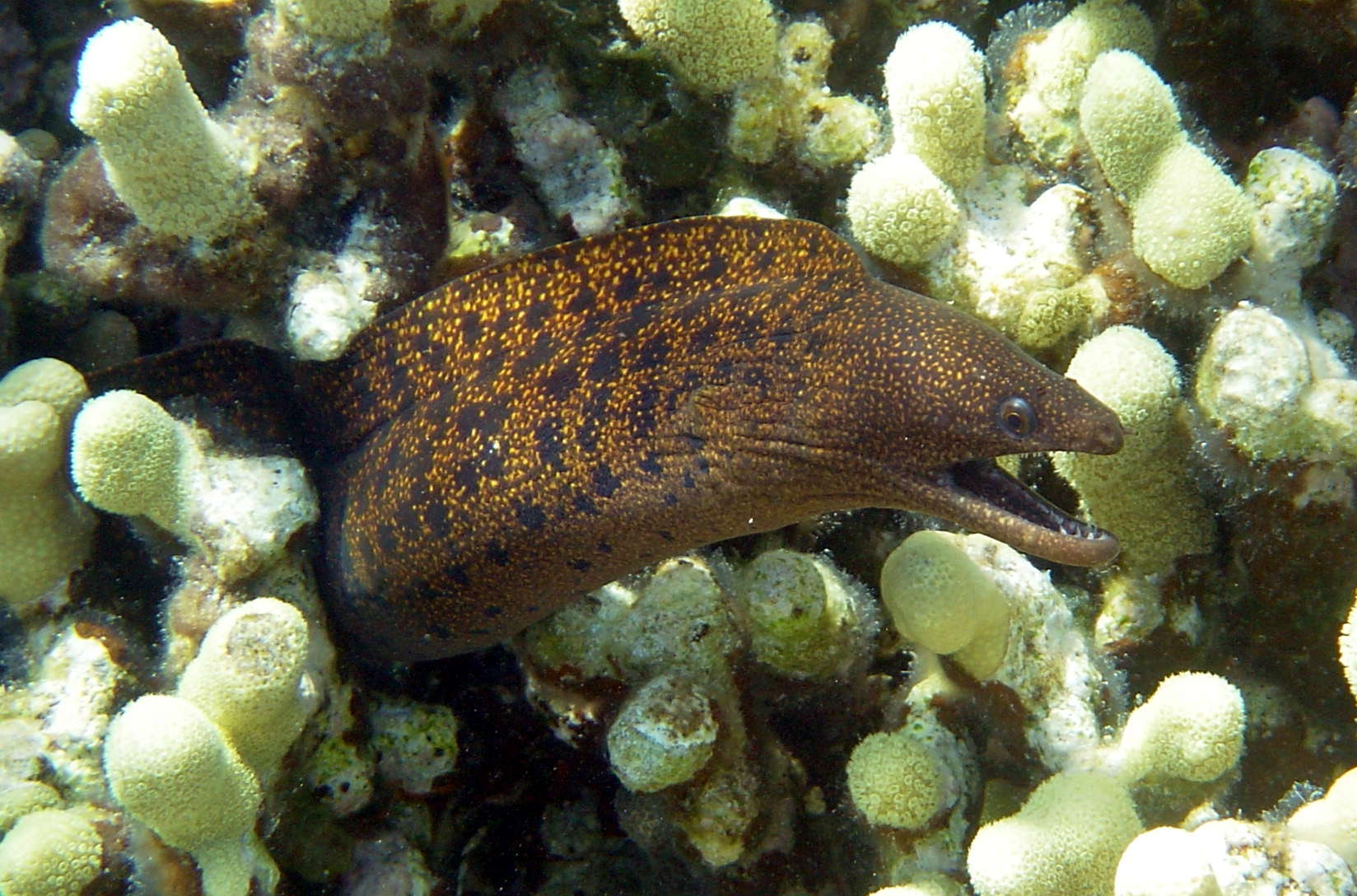 A stout moray eel (Gymnothorax eurostus) Image ID: reef0660, NOAA's Coral Kingdom Collection Location: Northwest Hawaiian Islands